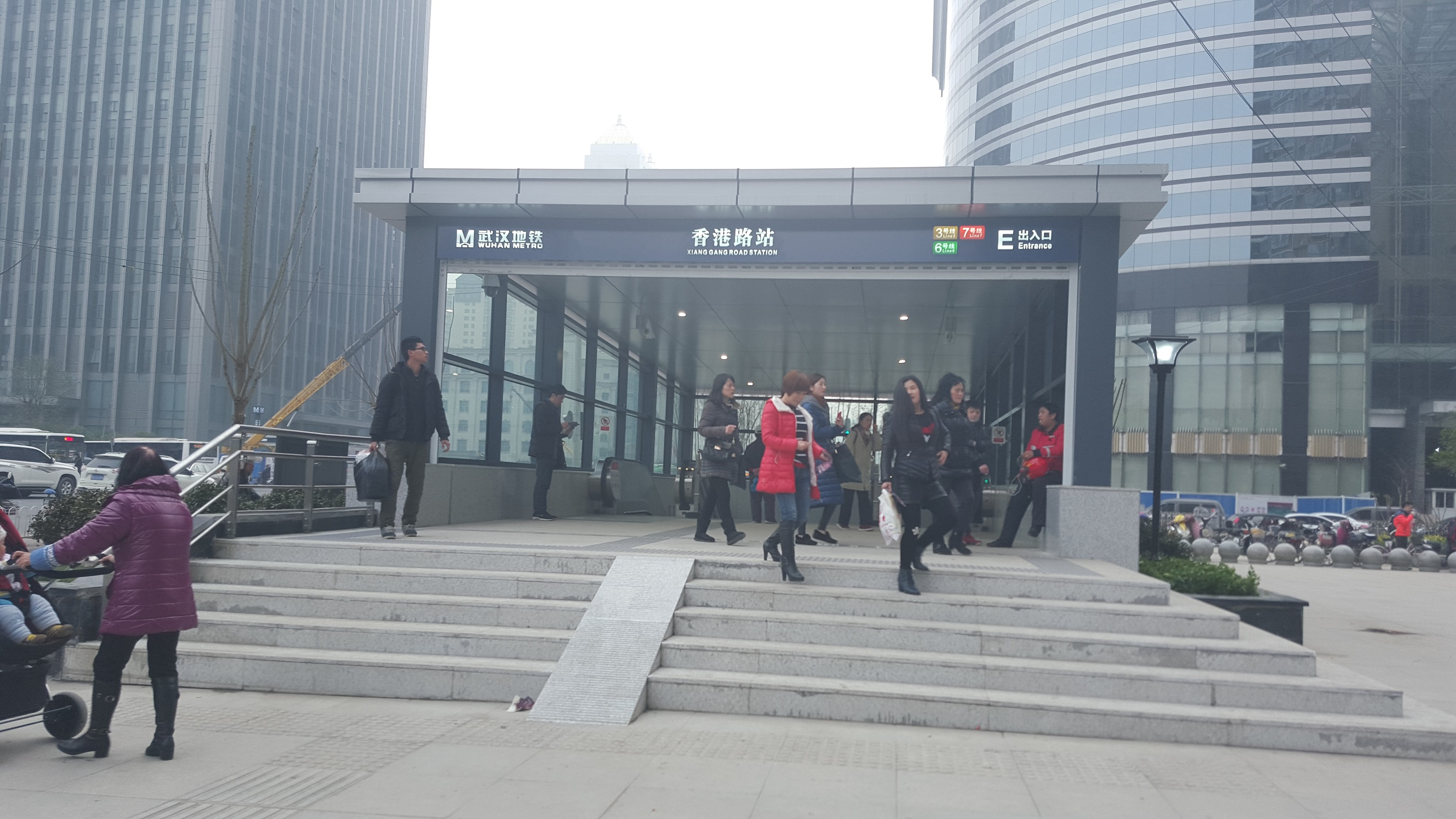 Entrance E of Xianggang Road Station, Wuhan Metro